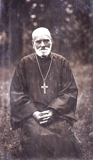 Anthony Pilinkiewich, Kanstantsin Pilinkiewich's father.